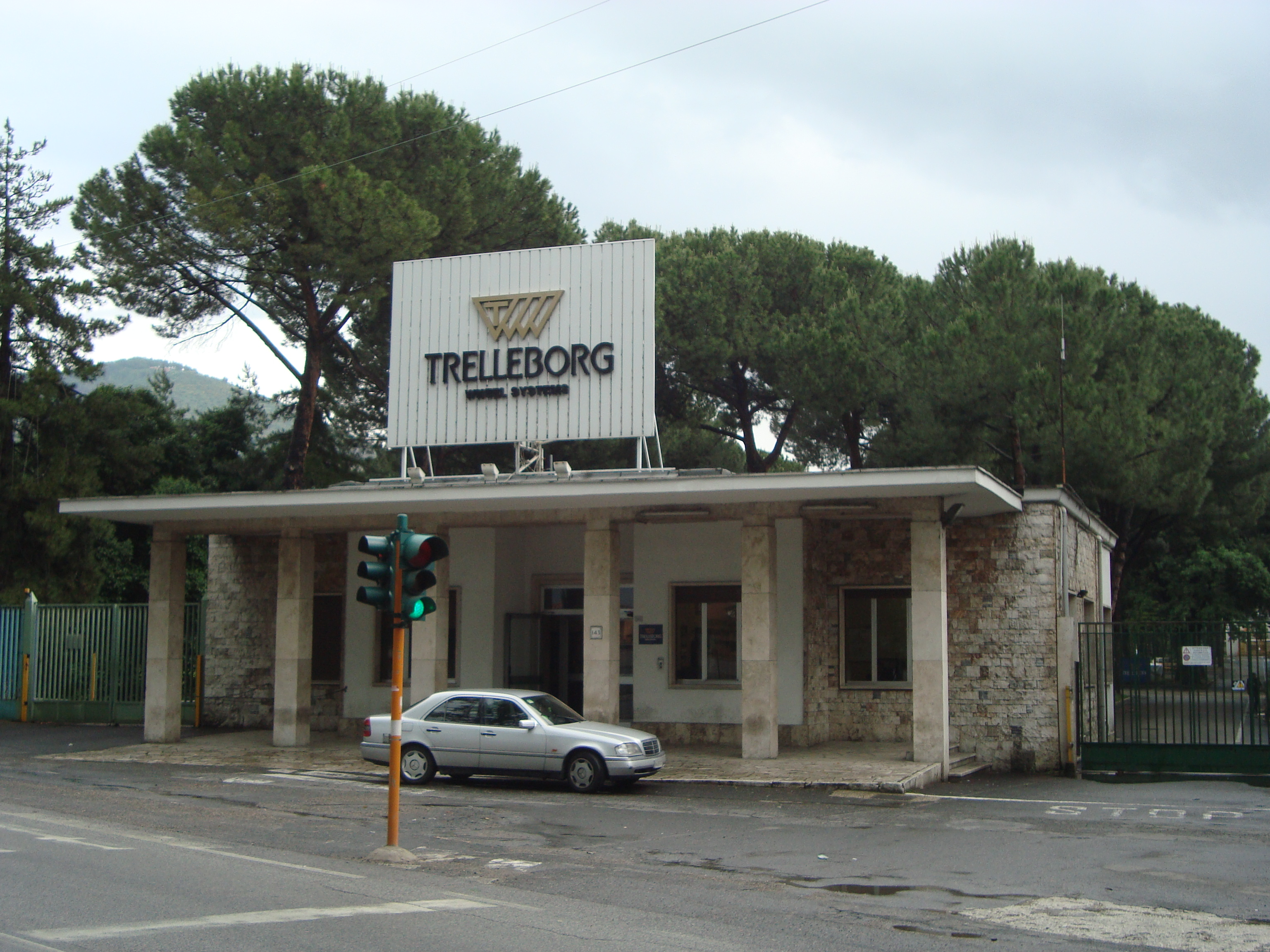 The Trelleborg AB plant in Tivoli, Italy